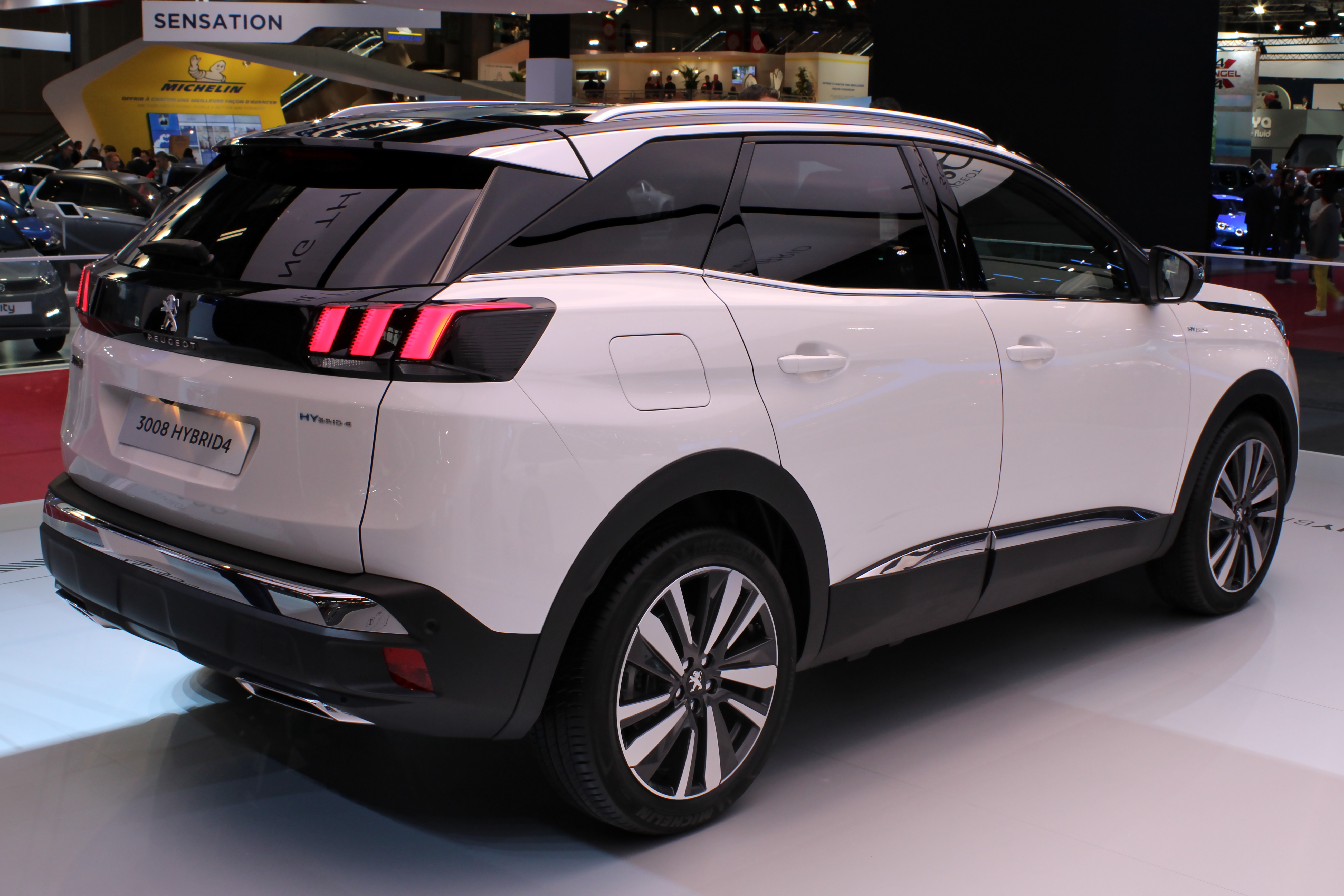 Peugeot 3008 Hybrid4 at Paris Motor Show 2018